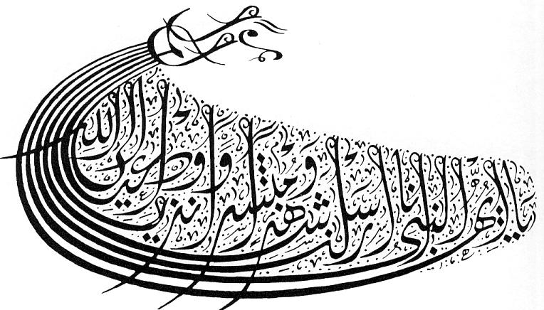 Arabic calligraphy in Diwani style forming the shape of a boat. Reading "يَا أَيُّهَا النَّبِيُّ إِنَّا أَرْسَلْنَاكَ شَاهِدًا وَمُبَشِّرًا وَنَذِيرًا وَدَاعِيًا إِلَى اللَّهِ".